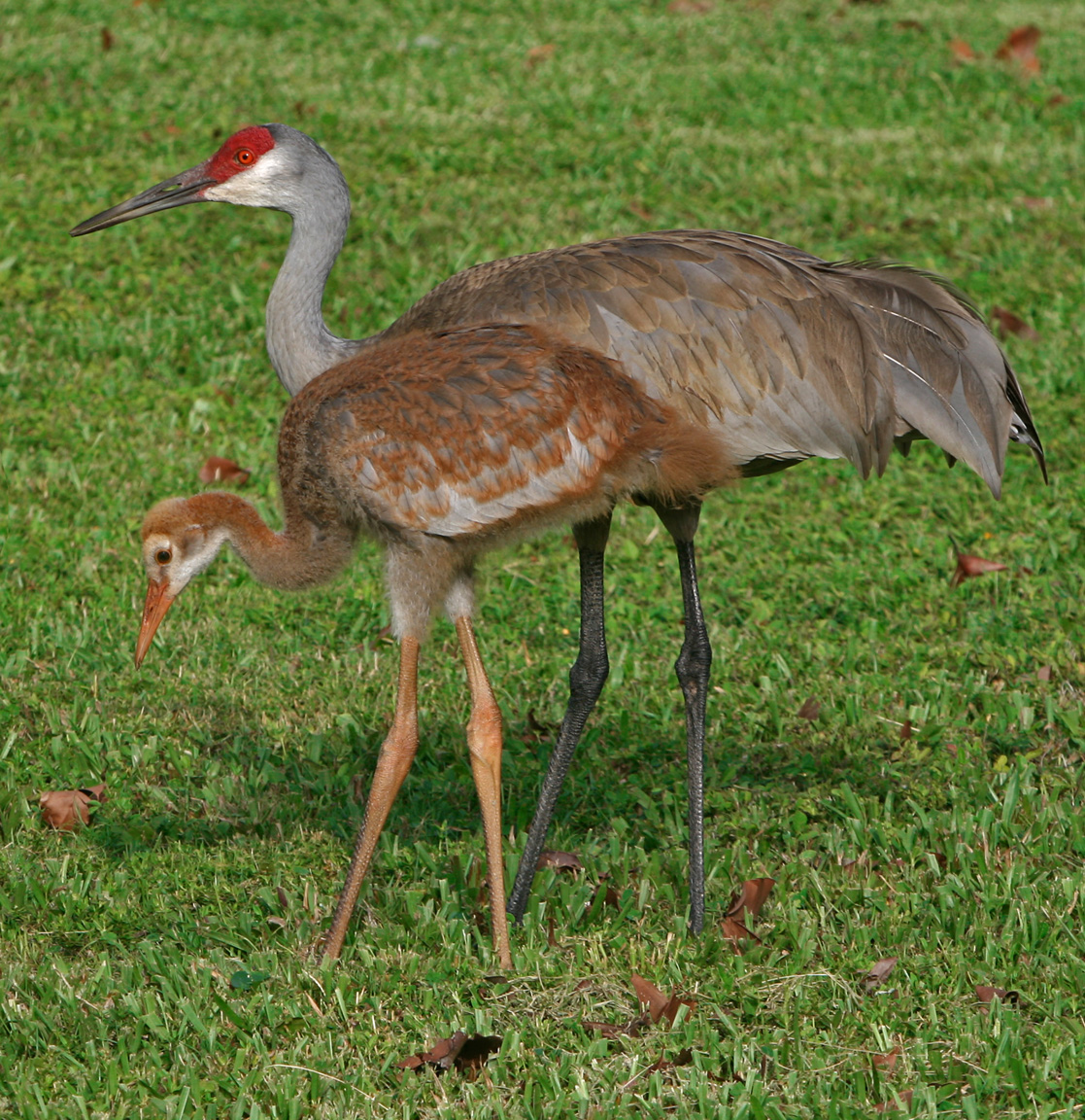 Sandhill Crane parent with child maybe four weeks old. Key Biscayne, Florida.